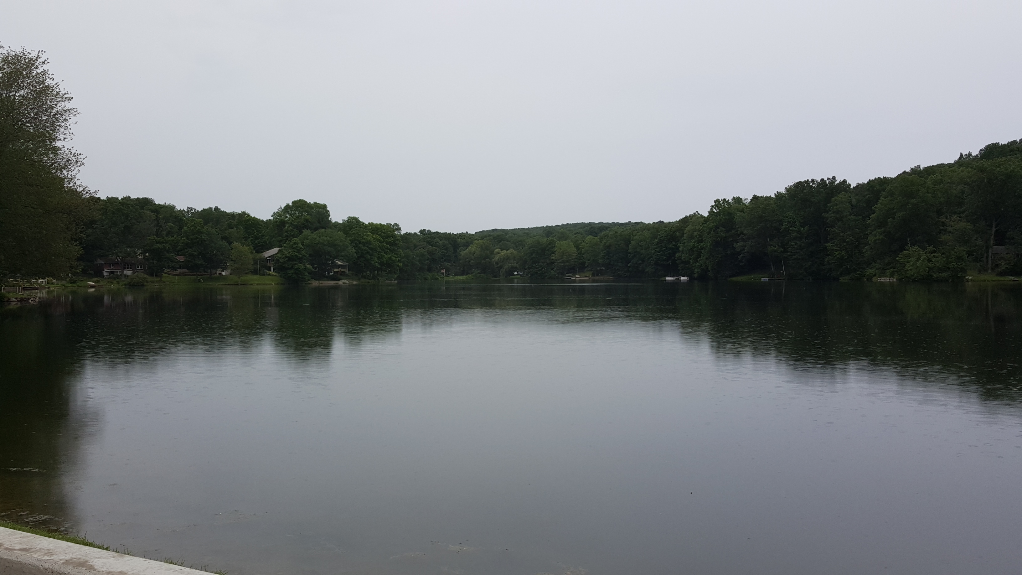 Lake Neepaulin seen from dam Wantage Twsp NJ